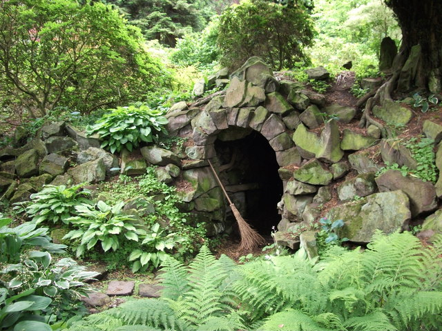 Photograph of the grotto in the garden of Rode Hall, Odd Rode, Cheshire